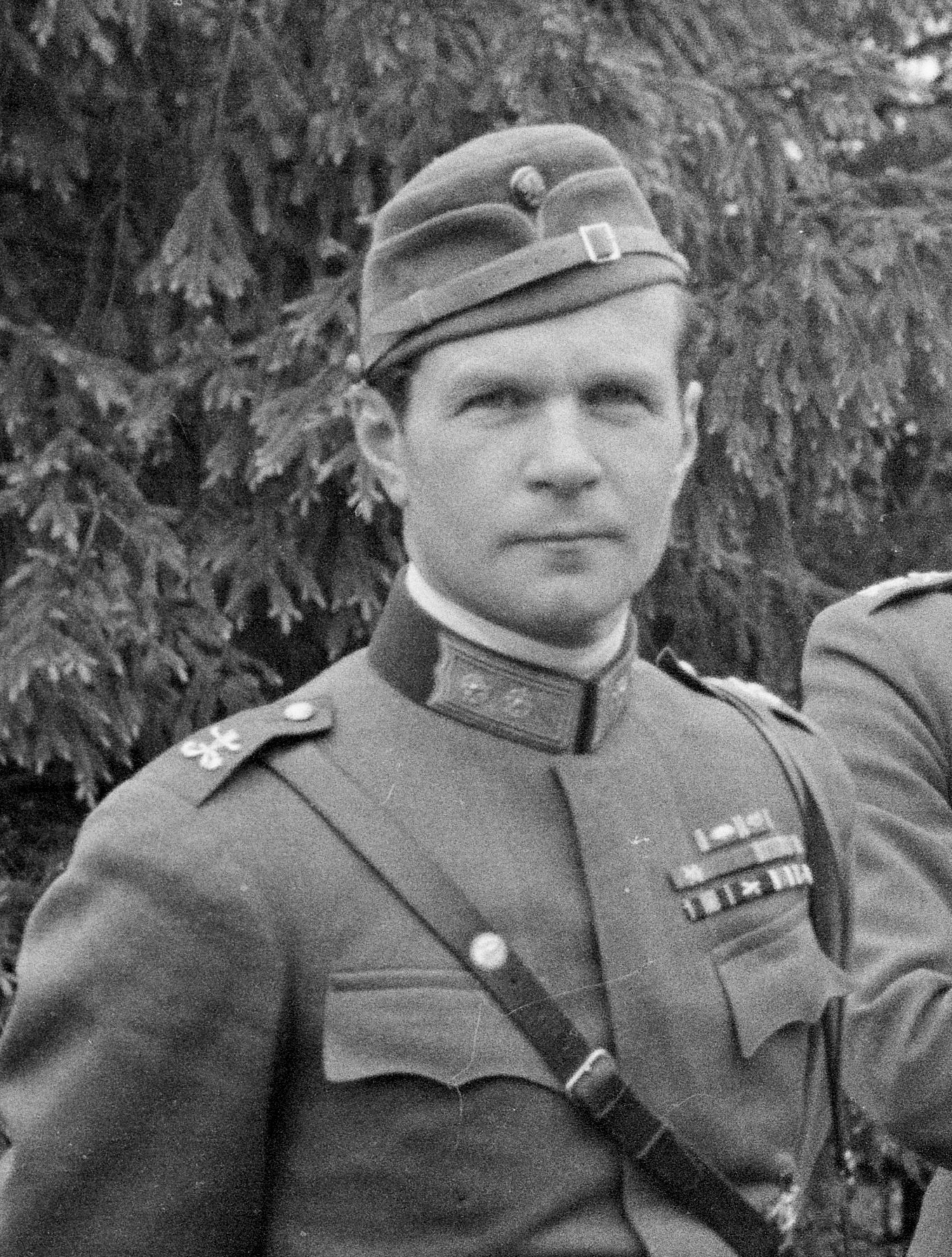 Hans von Essen, Knight of the Mannerheim Cross #30